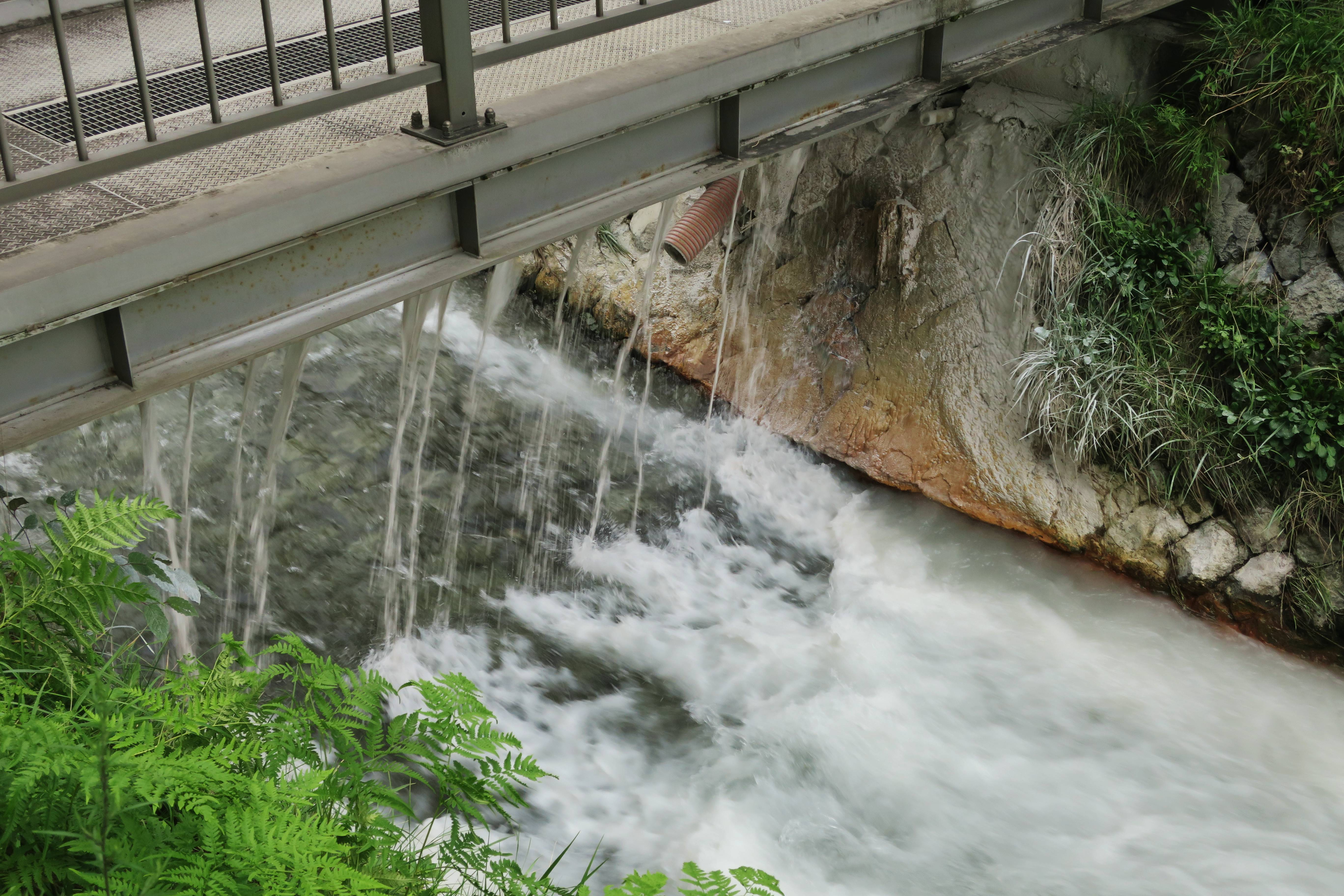 Kusatsu Onsen limewater injection.